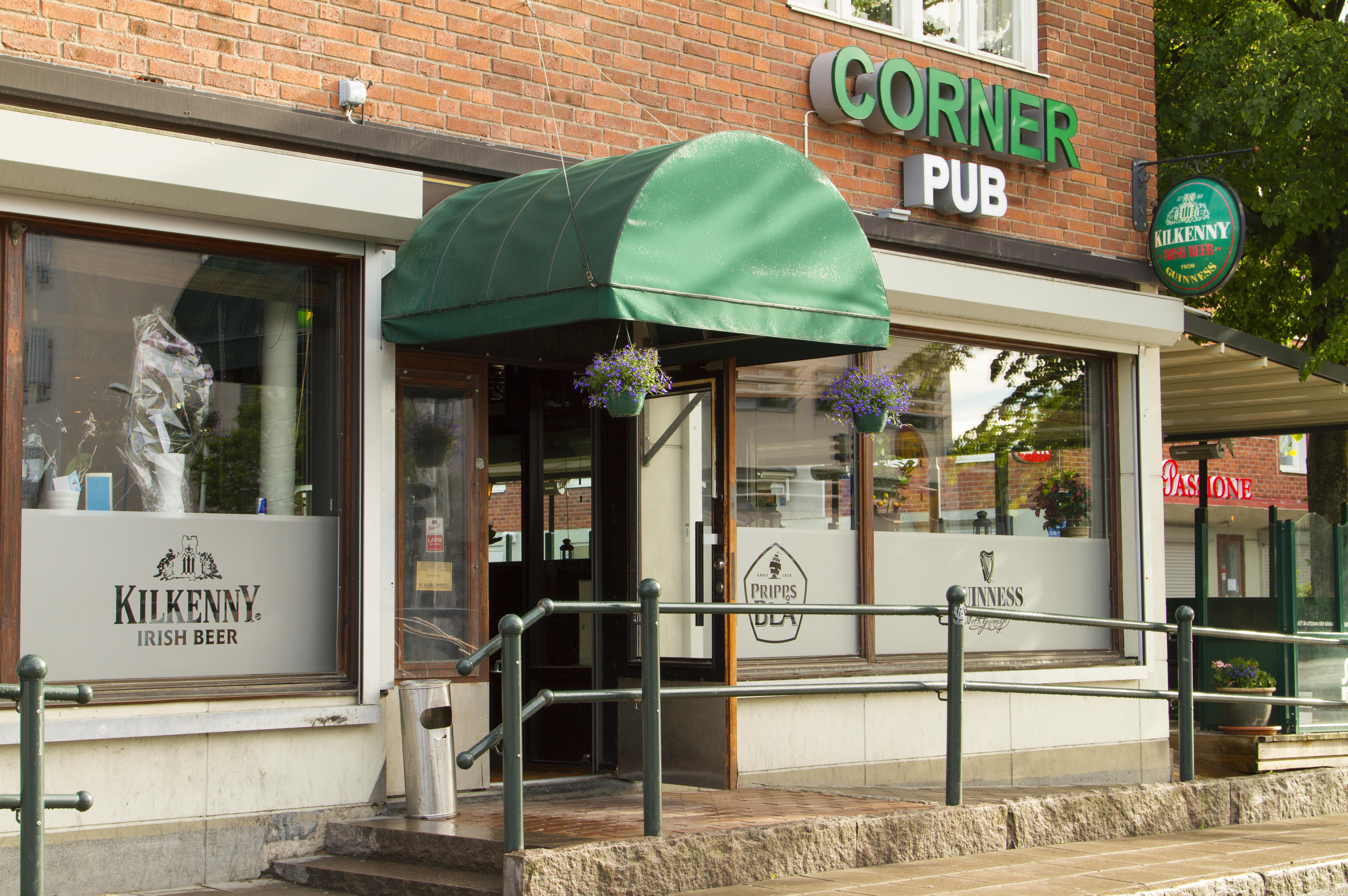 Famous local "Corner Pub" in Märsta a suburb of Stockholm, Sweden